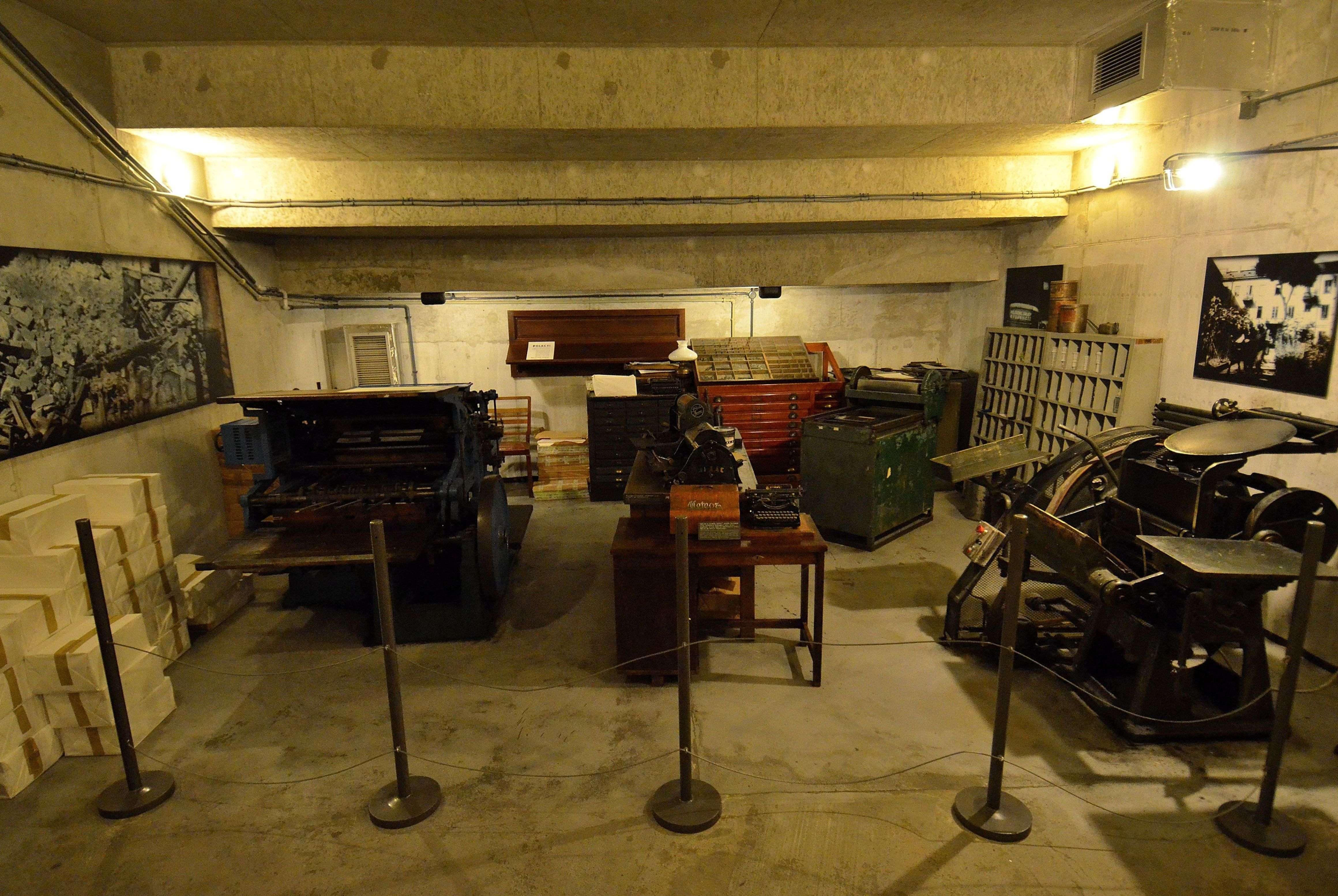 Print shop at the Warsaw Uprising Museum